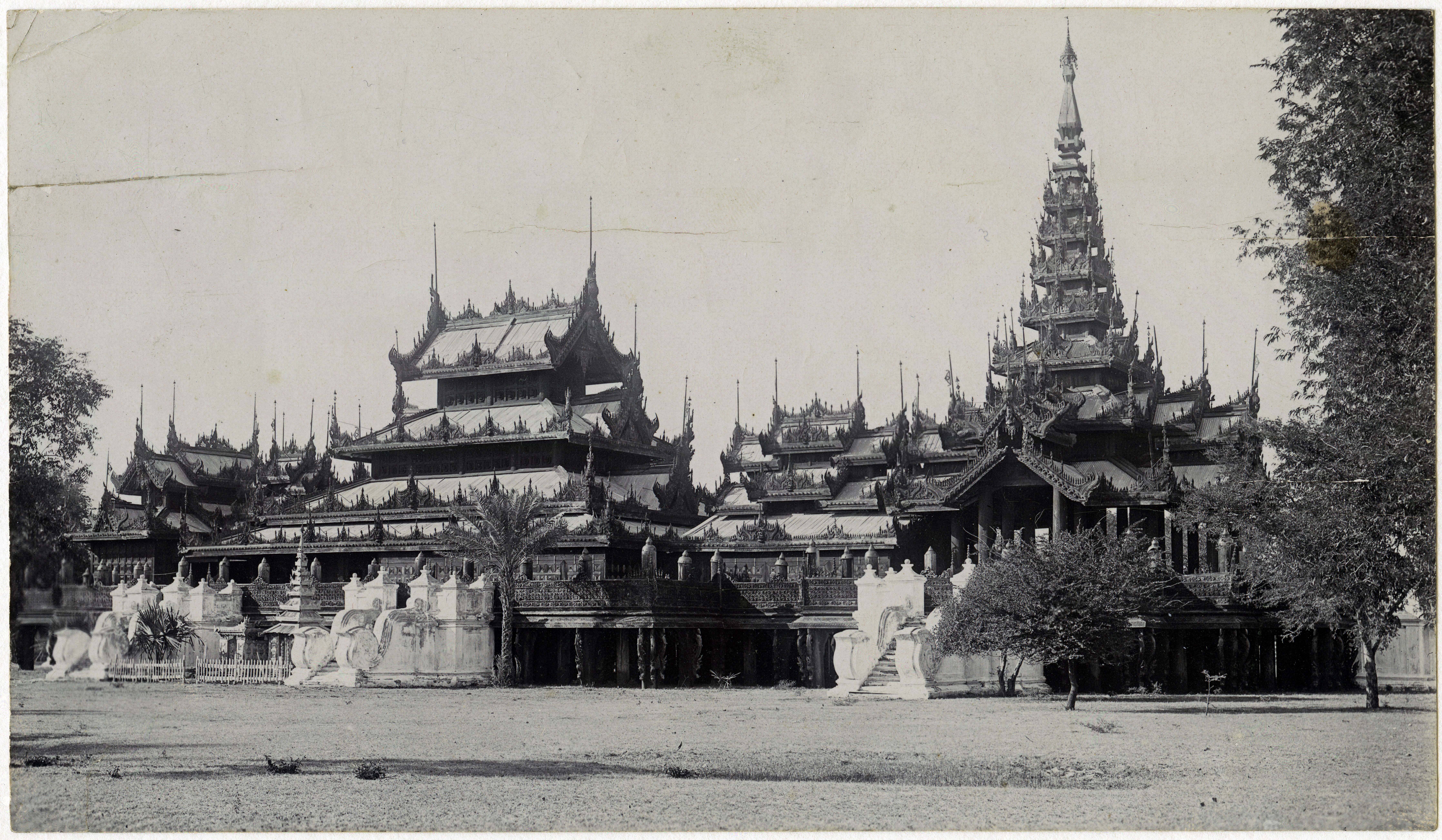 Shwe In Bin Monastery, Mandalay, in about 1900.